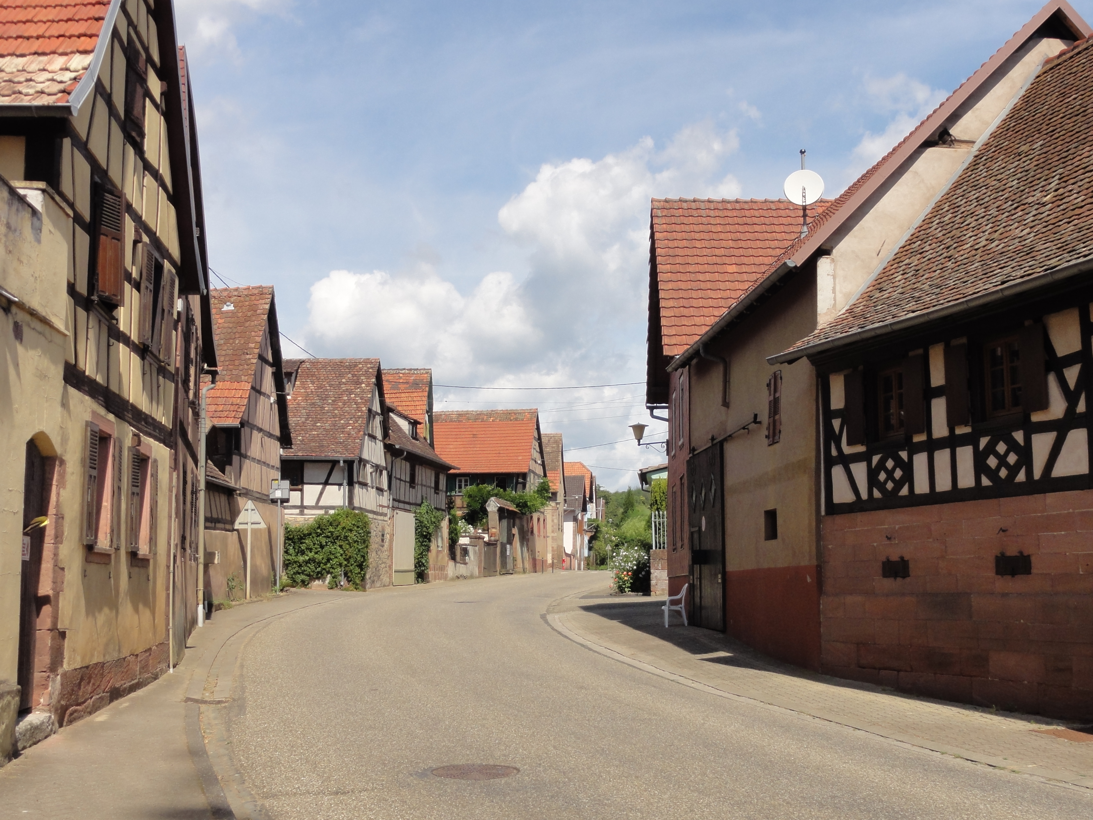 Alsace, Bas-Rhin, Imbsheim, Rue Principale.